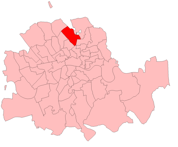 A map of Islington East constituency within the Metropolitan Board of Works area, as it existed from 1885 to 1918.